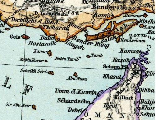 Abu Musa and Greater and Lesser Tunbs in Iran and Turan Map by Adolf Stieler map 1891